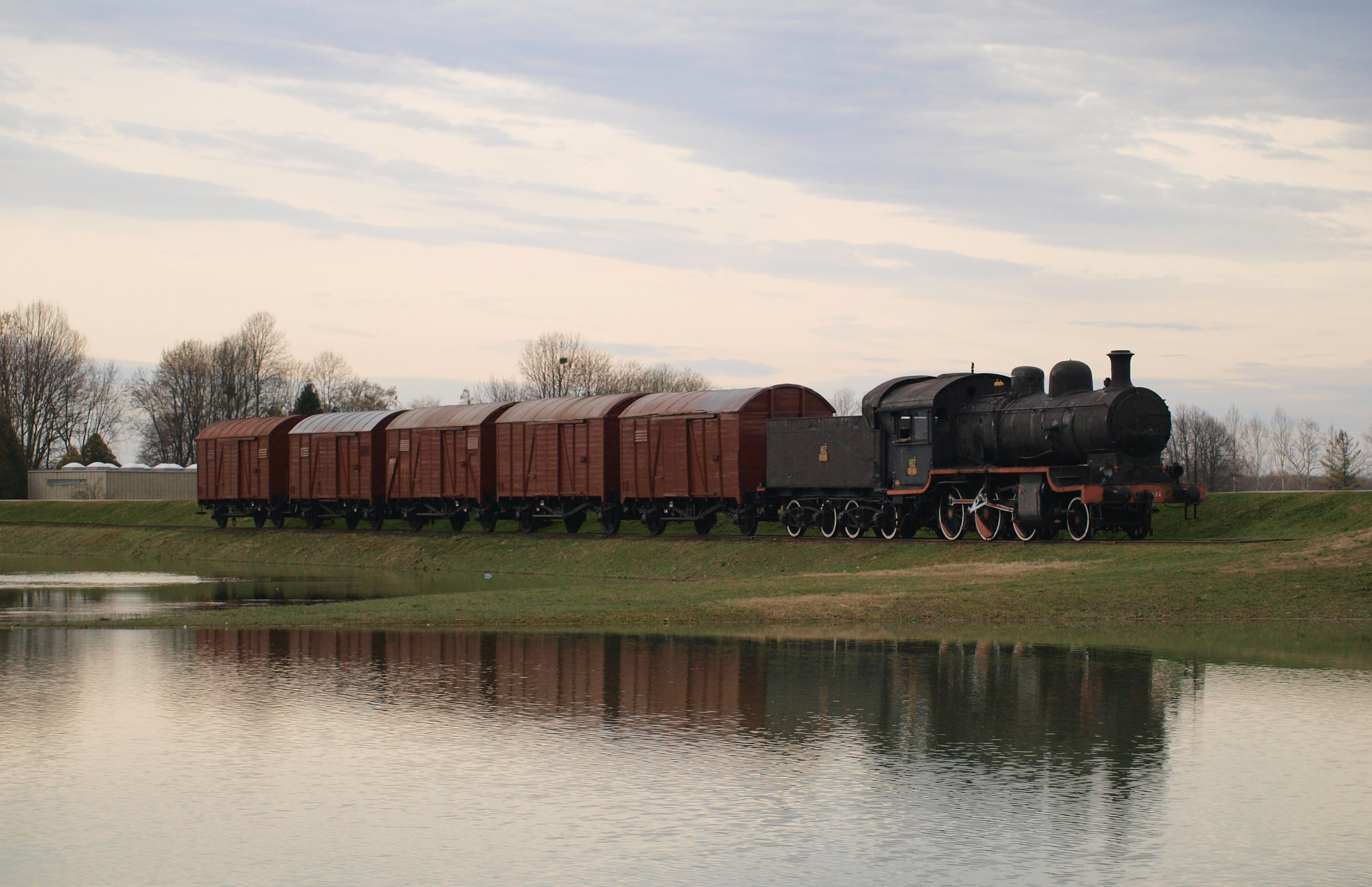 Death train in Jasenovac concentration camp.